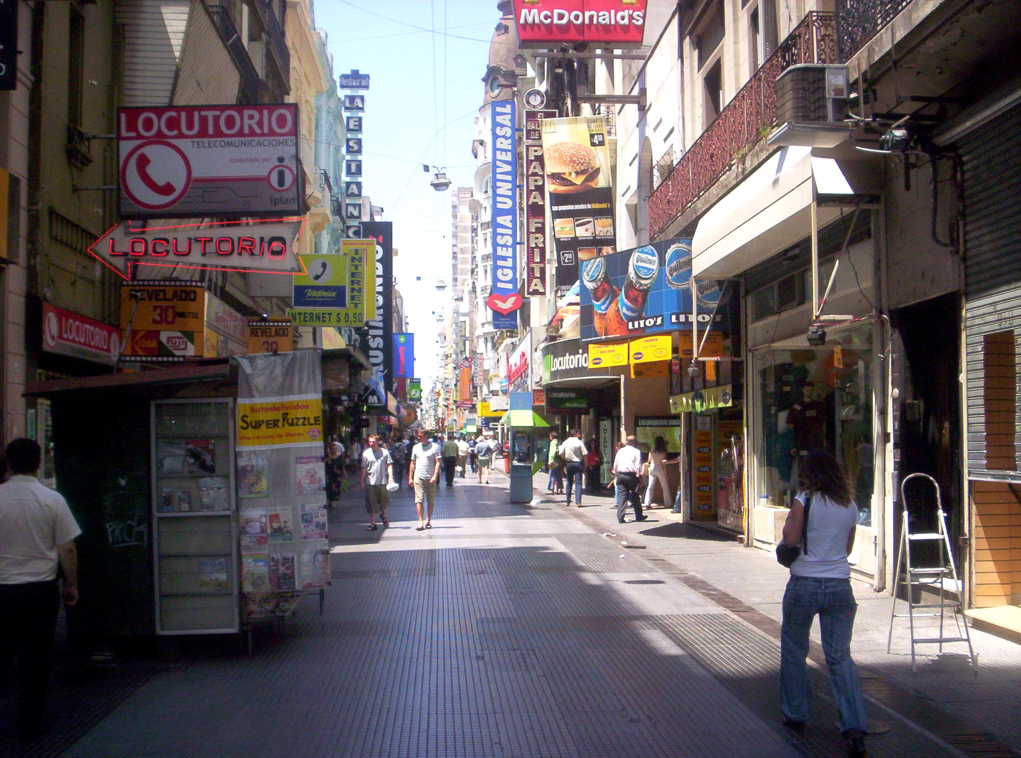 Pedestrian mall Lavalle, Buenos Aires